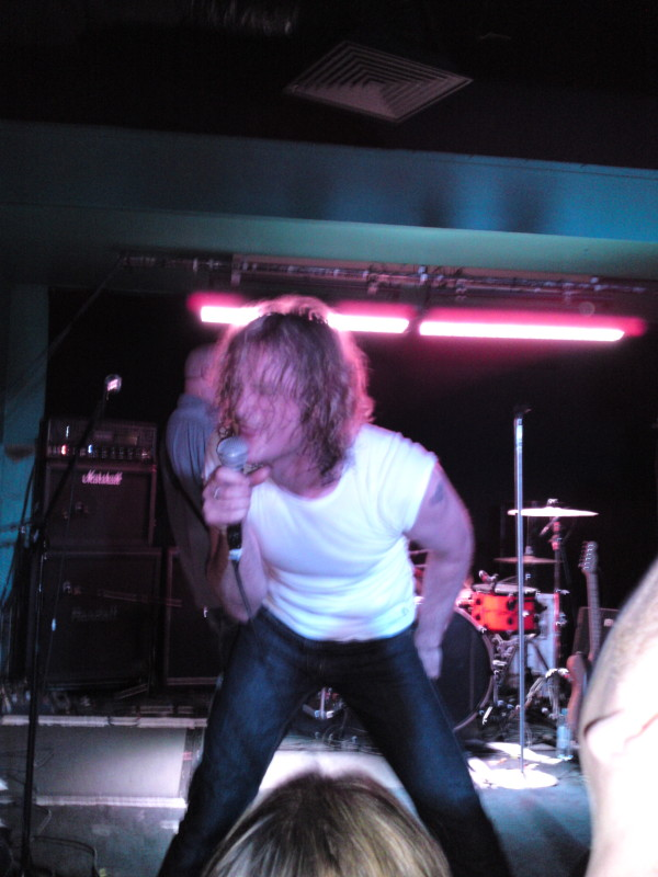 Picture of Toby Jepson, lead singer of GUN.